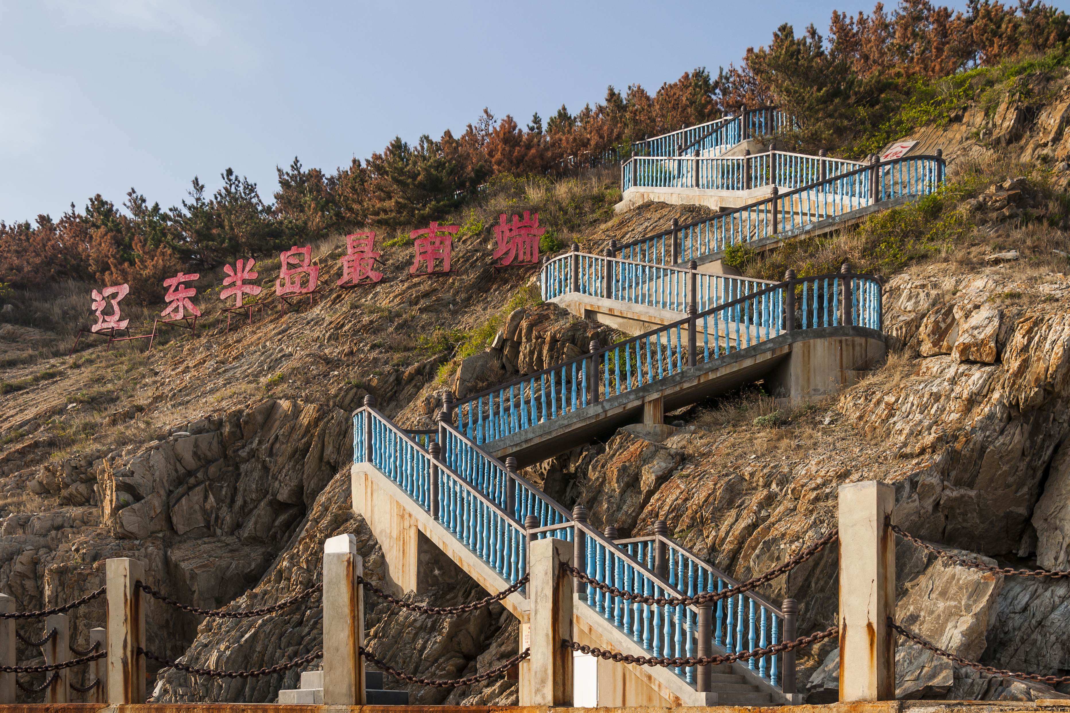 Laotie Hill, Liaoning, China: The stairs to the southernmost tip of Liaodong Peninsula. It is also the place, where Yellow sea is bordering the East China Sea